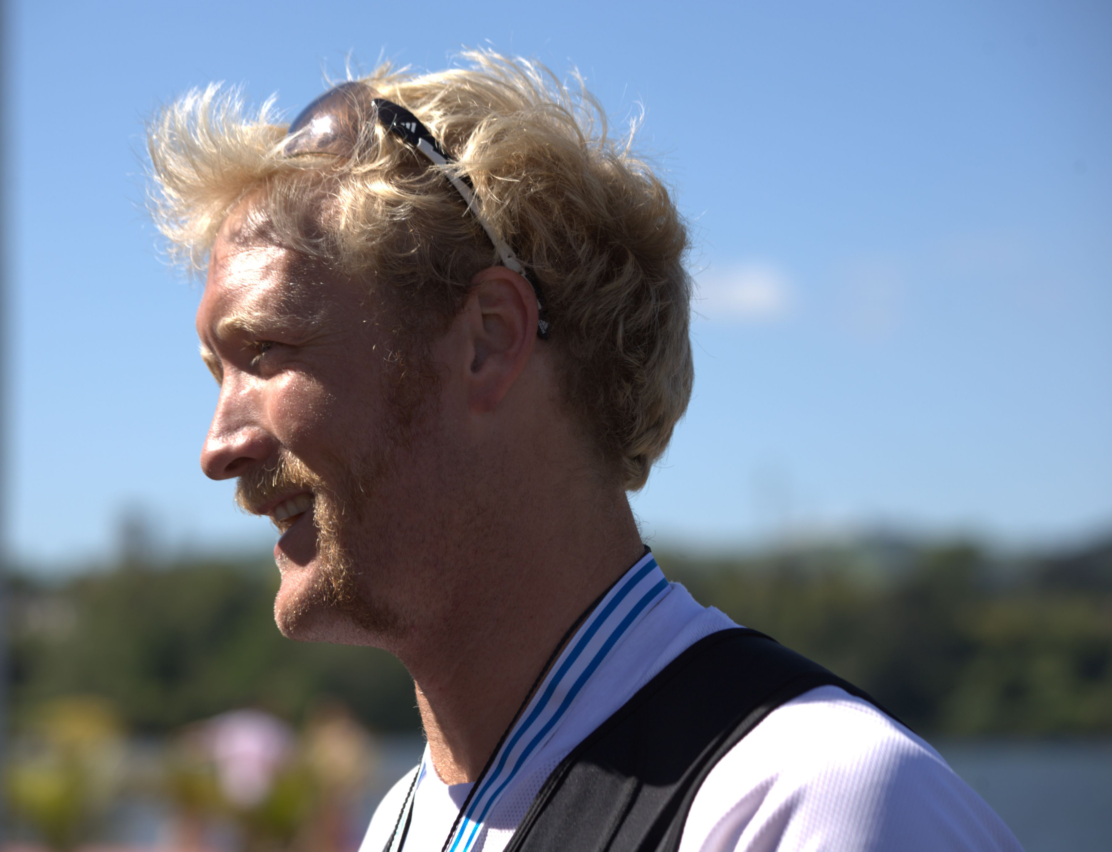 Eric Murray 2010 World Rowing Championships.